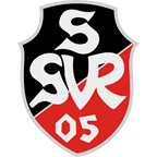 Logo of SSV Reutlingen 05 from 1950 to 1976